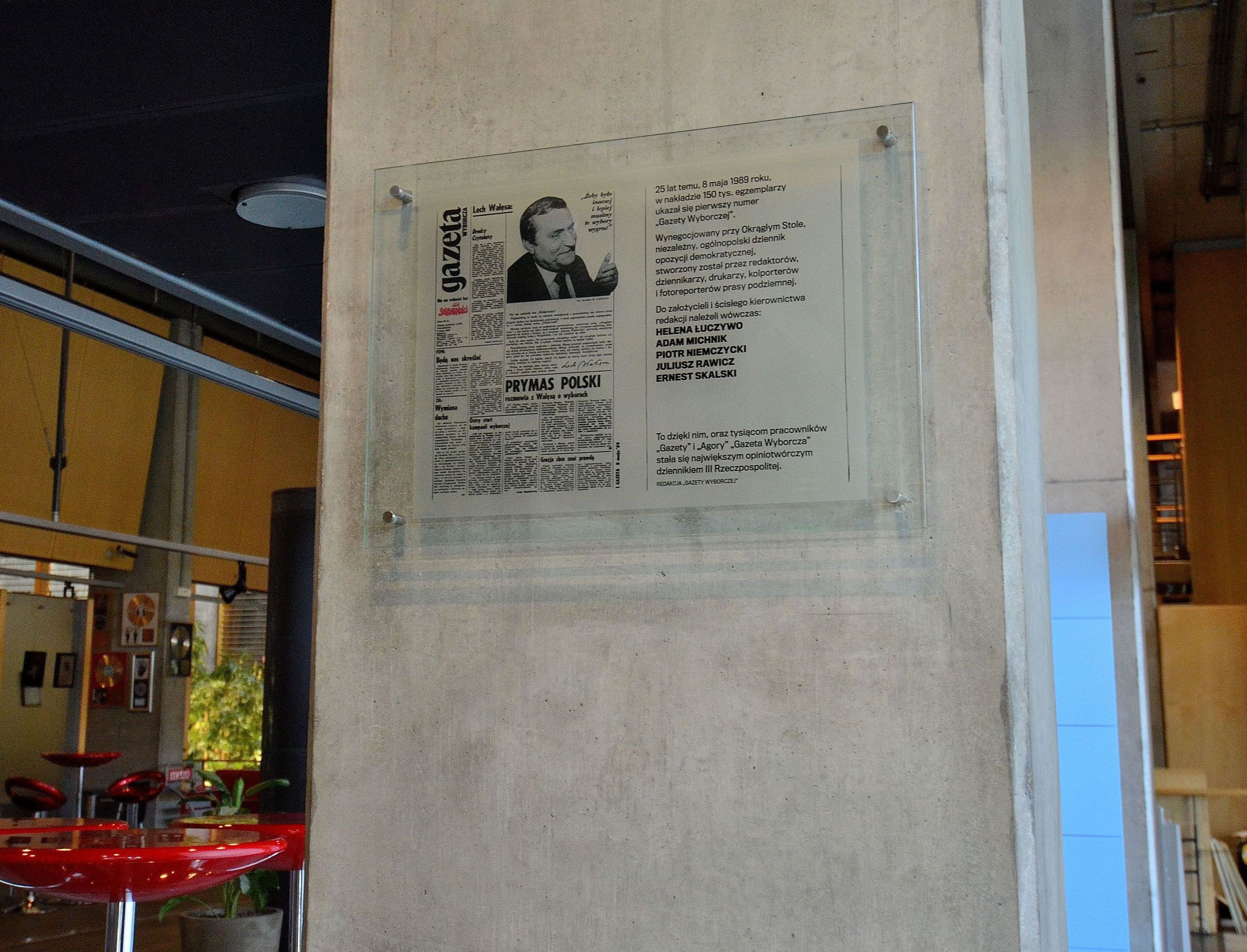 Commemorative plaque in the lobby of "Gazeta Wyborcza" HQ at 8/10 Czerska Street in Warsaw